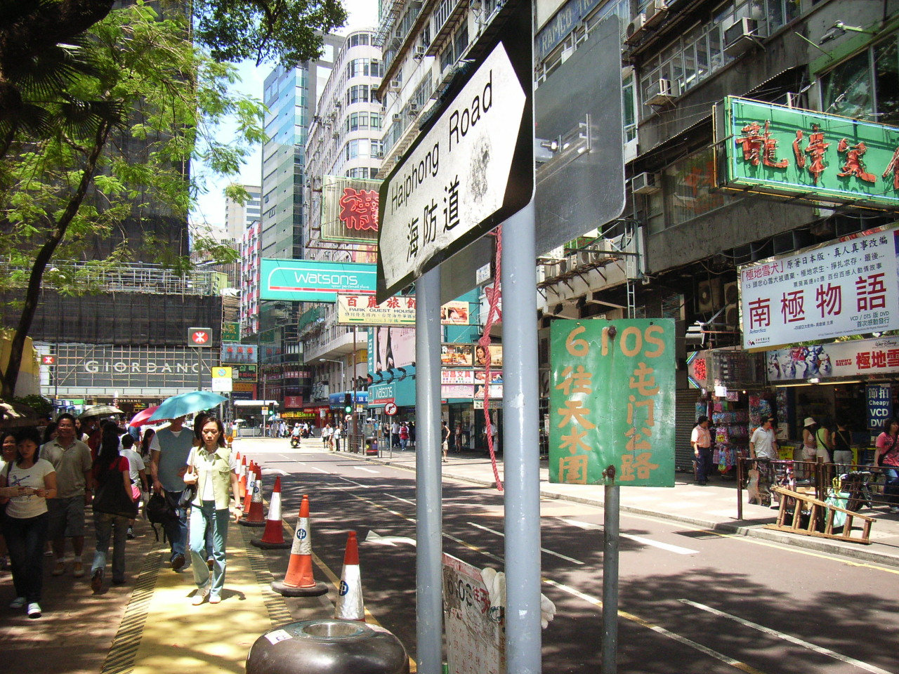 海防道, Haiphon Road, TST, Kln Photo by TonySKTO